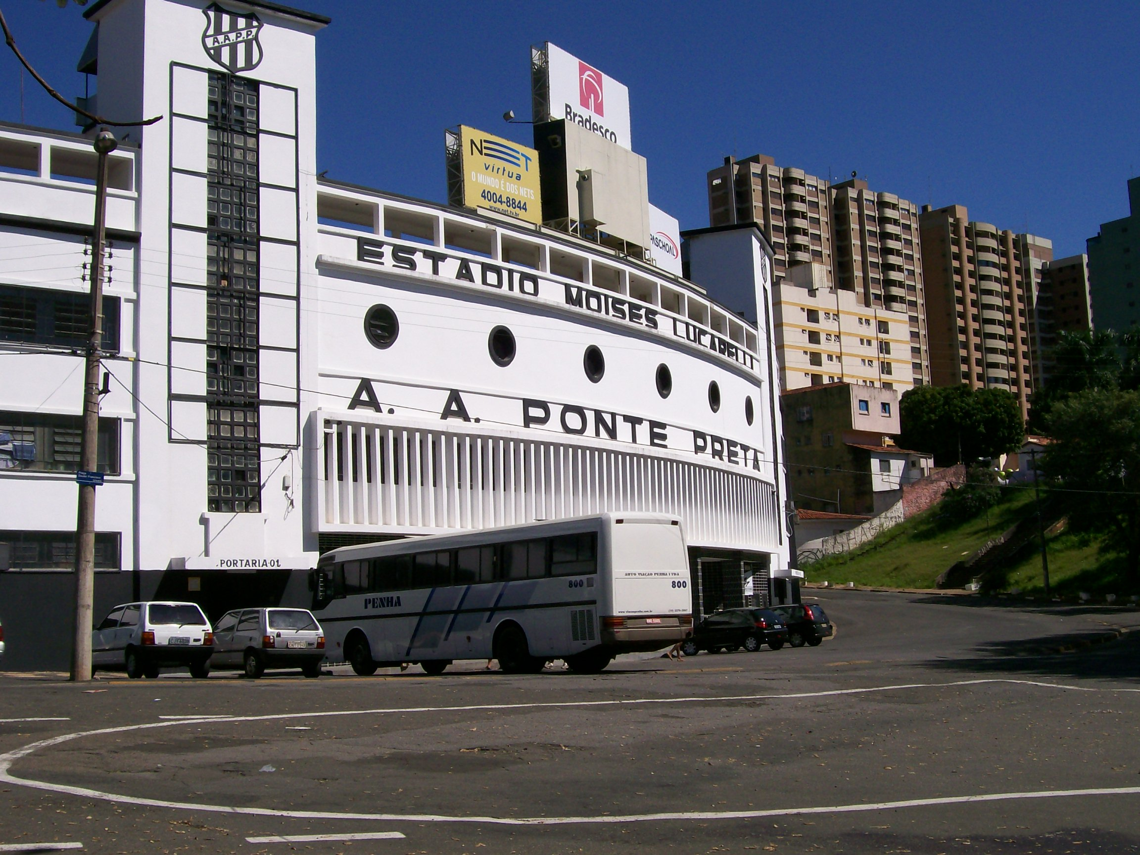 Façade of Moysés Lucarelli Stadium, in Campinas, Brazil